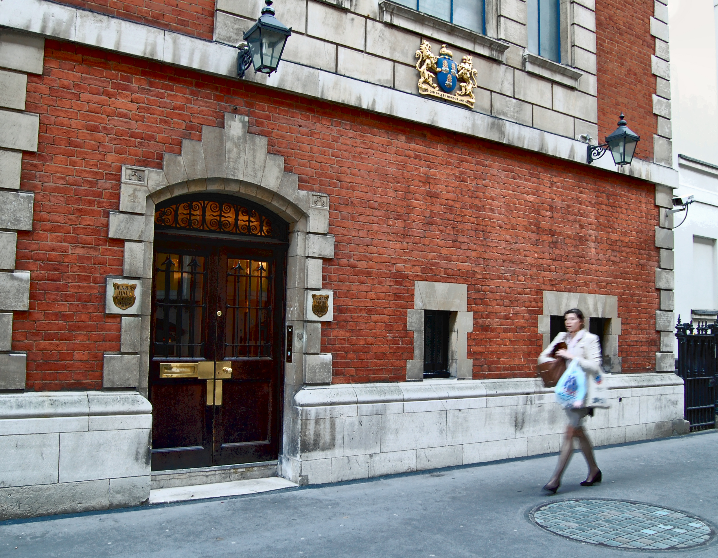 Drapers' Hall in the City of London